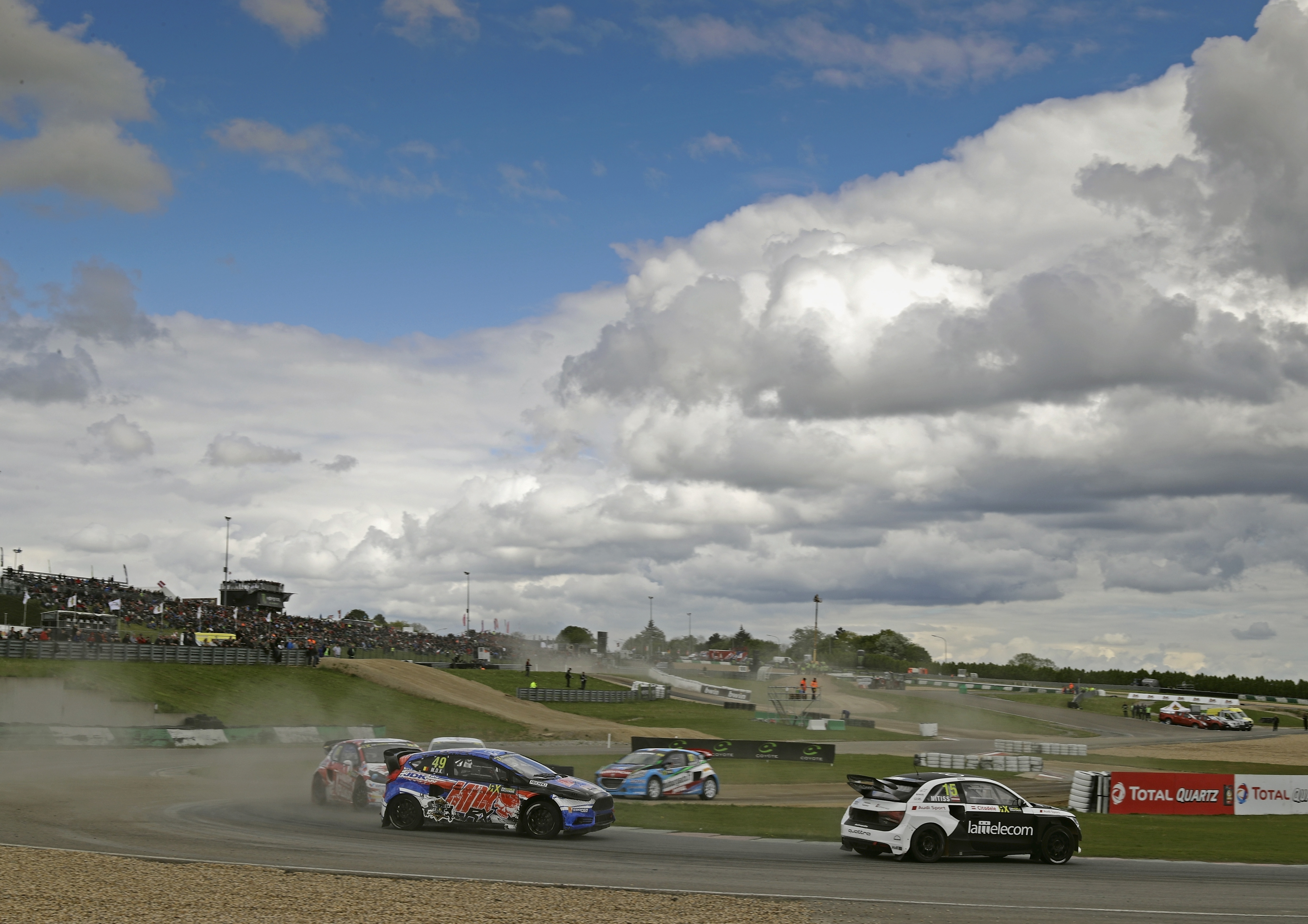 2017 FIA World Rallycross Championship // Round 04, Mettet // Credit: EKS/Bodo Kraeling